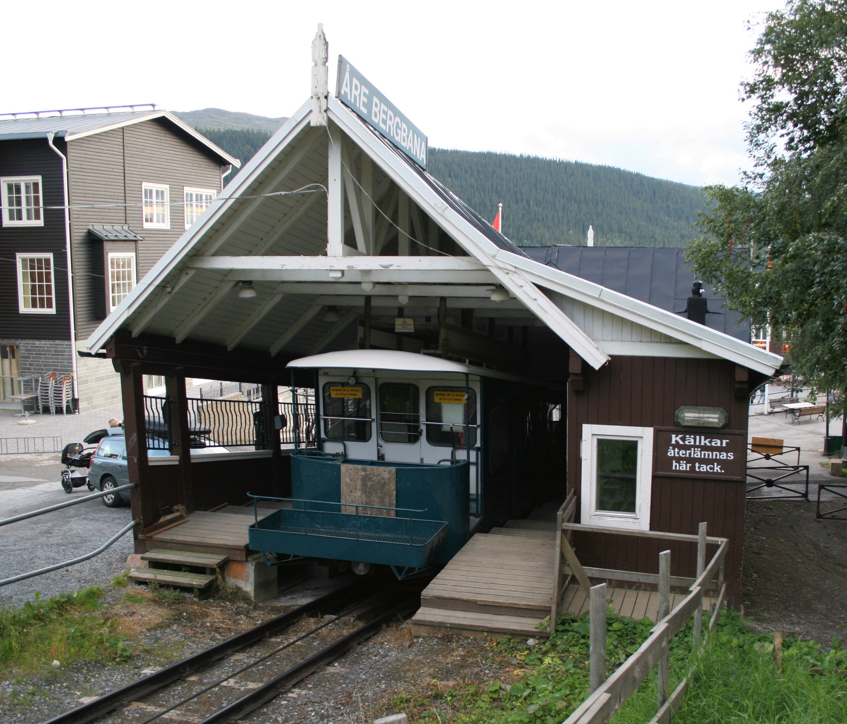 Valley station of Åre Funicular